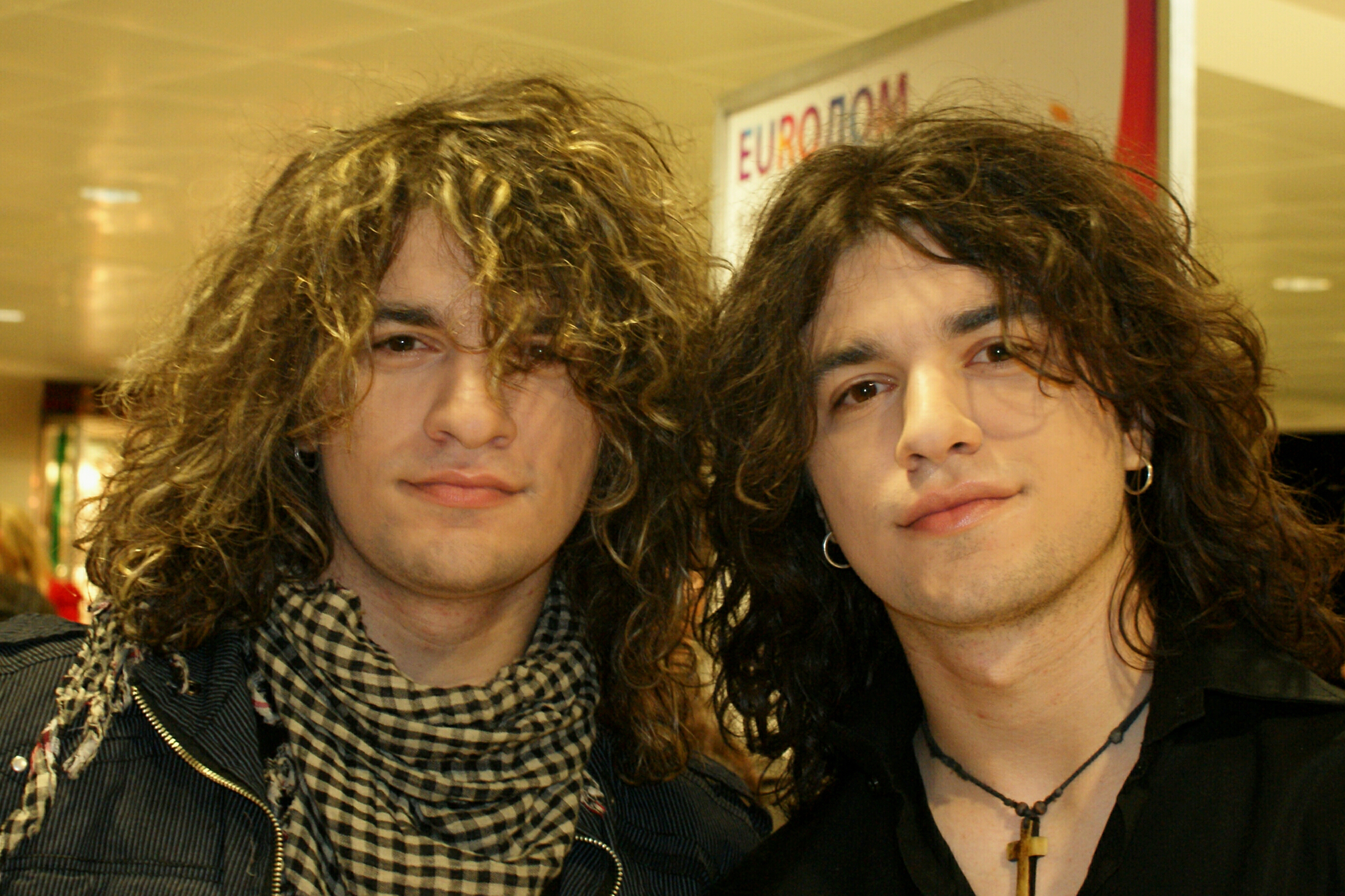 Next Time in Moscow, 2009